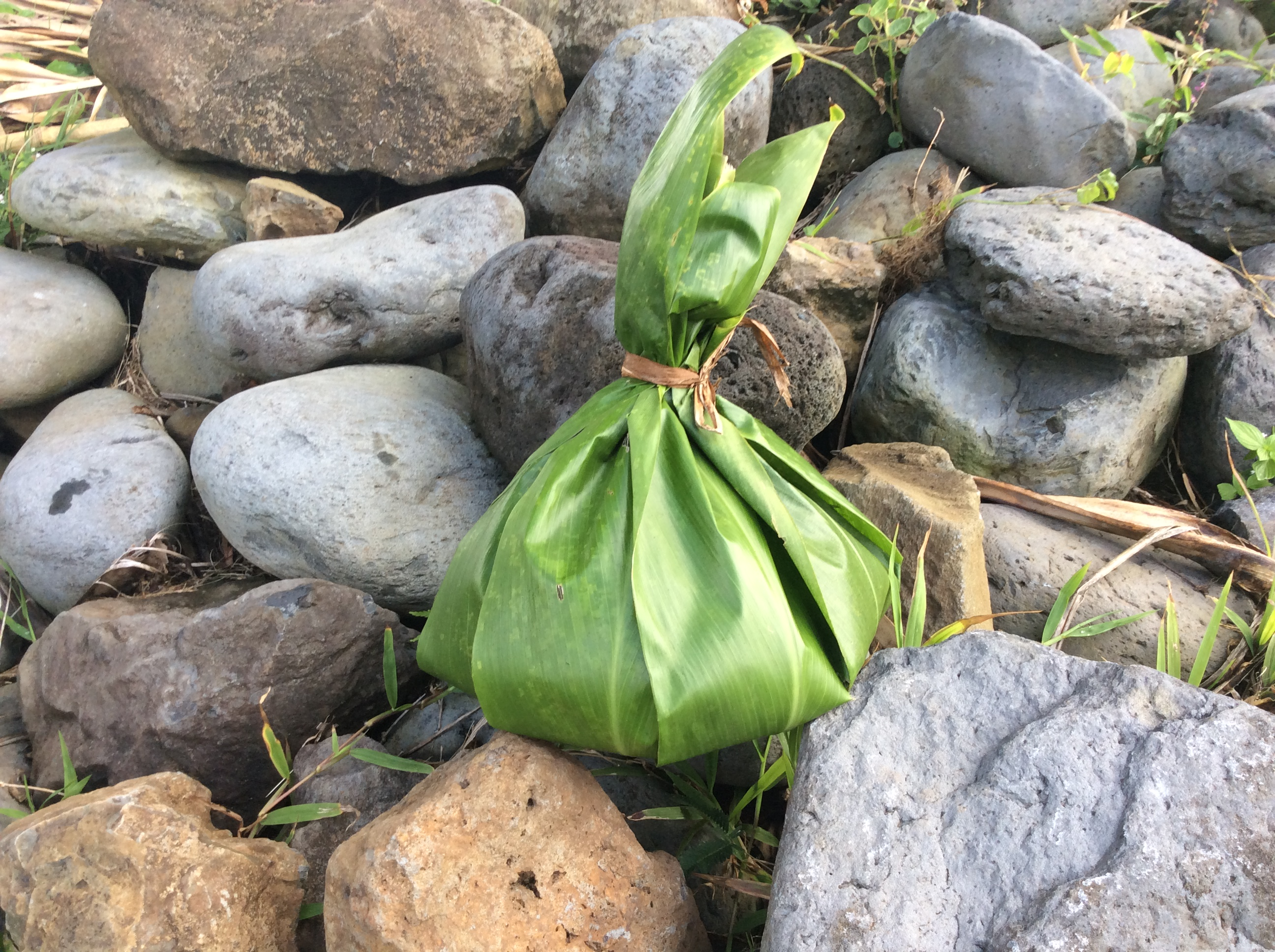 Ti leaf (Cordyline fruticosa) bundle, Haleakala National Park, Hawaii, US